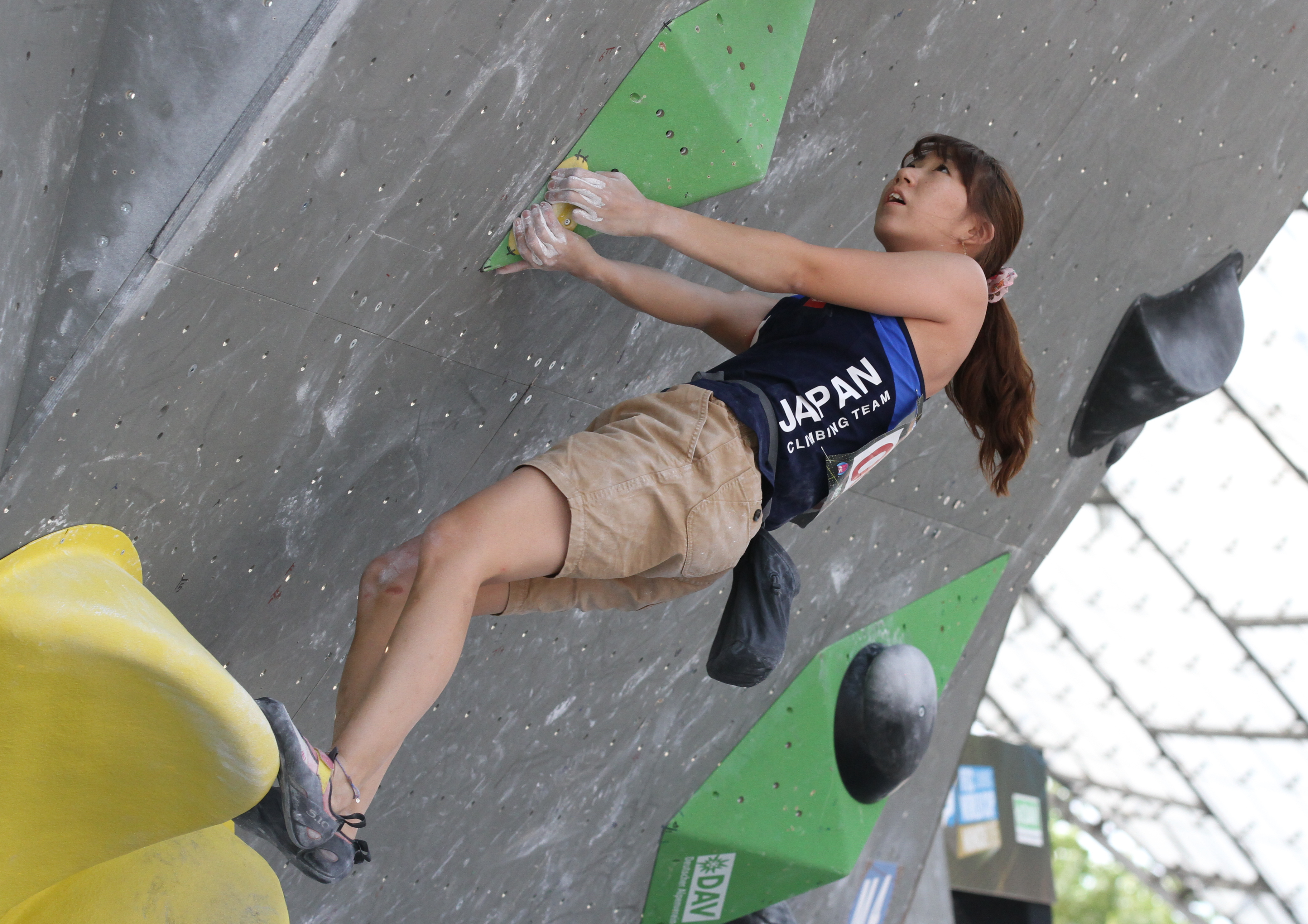 IFSC Boulder Worldcup, Munich 2015. Aya Onoe (JAP)